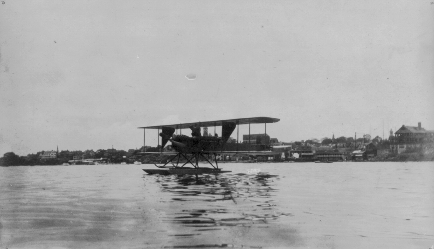 Burgess H, the first tractor aeroplane of the U.S. Army Signal Corps, on 21 October 1913. The Burgess H was an early airplane and possibly the first air machine specifically designed and built for military use. Classified as the "Model H military tractor", it was developed and built in 1912 by Burgess Company and Curtis, which in the following year became The Burgess Company. The 1st Aero Squadron of the U.S. Army Signal Corps relocated to North Island, San Diego, California, as a flying training unit on November 28, 1913. Its primary training aircraft were the Wright C (1913–1914) and Burgess H (1913–1915). Original caption: "Burgess tractor of Burgess Co. & Curtis, 100 HP Renault, sold Army Air Service and delivered Oct. 21, 1913."